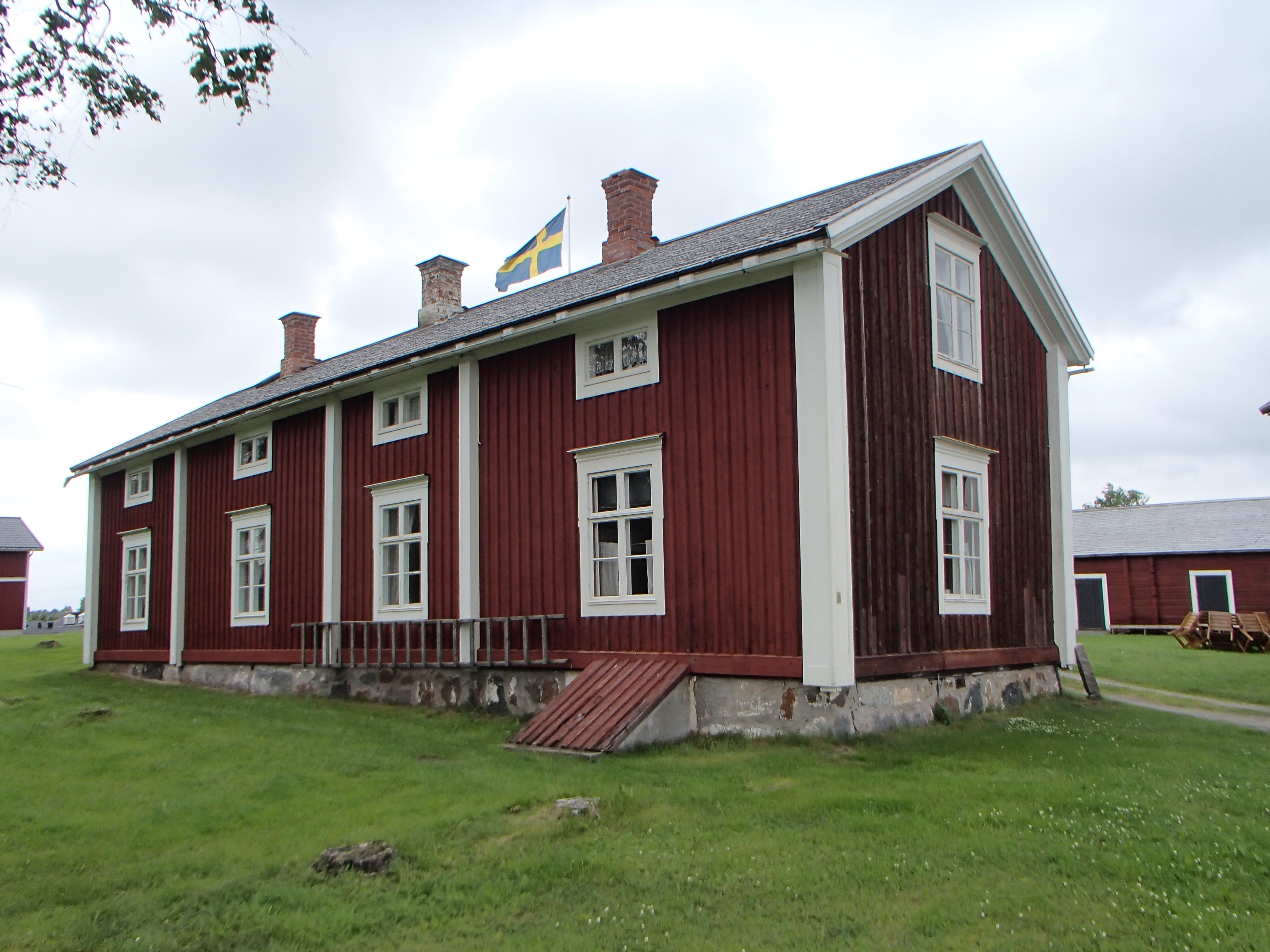 The main house of "Englundsgården" at Näsbyvägen 32 in Näsbyn, Kalix Municipality, viewed from southwest